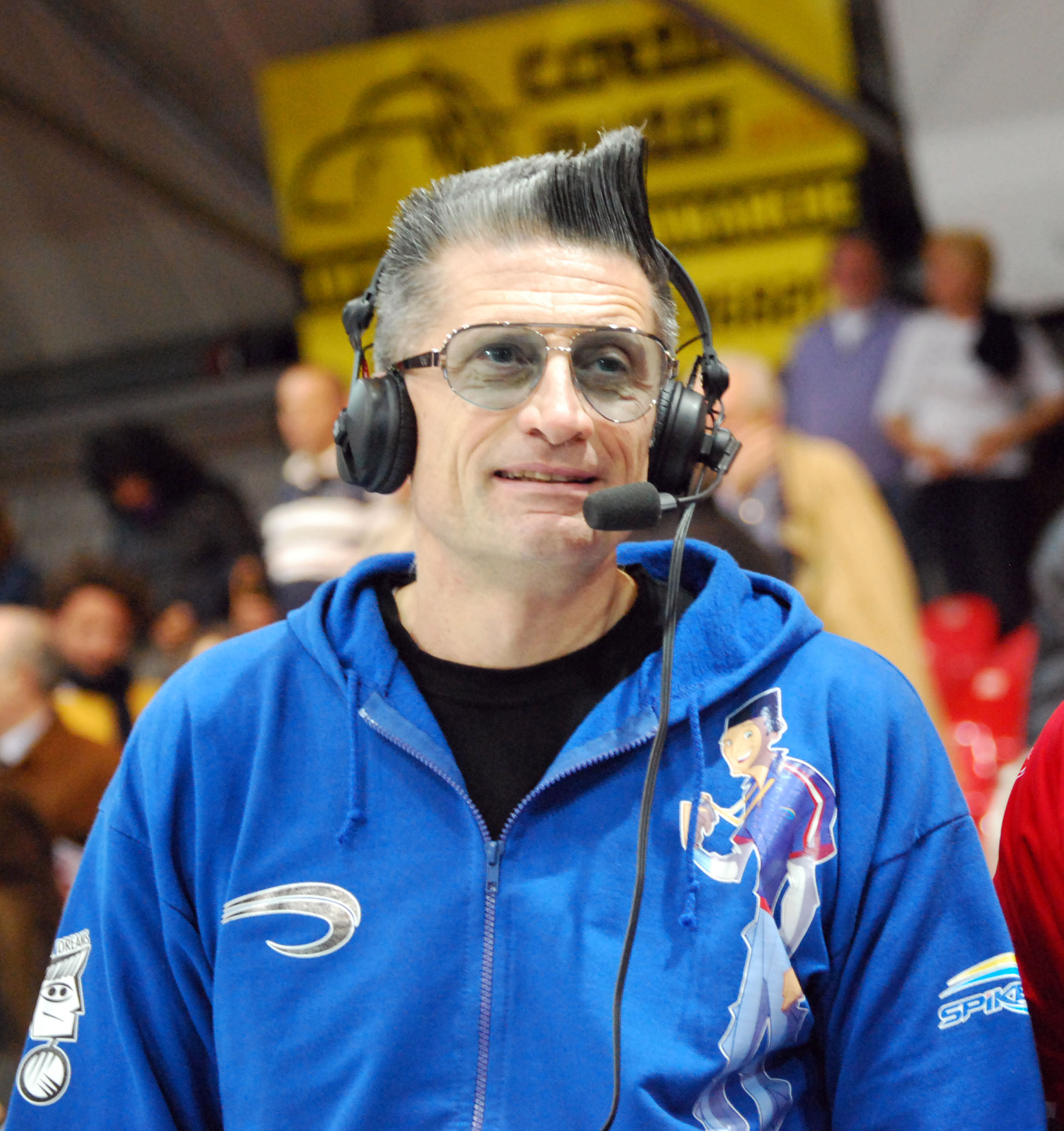 I took this photo during a volleyball match in Piacenza